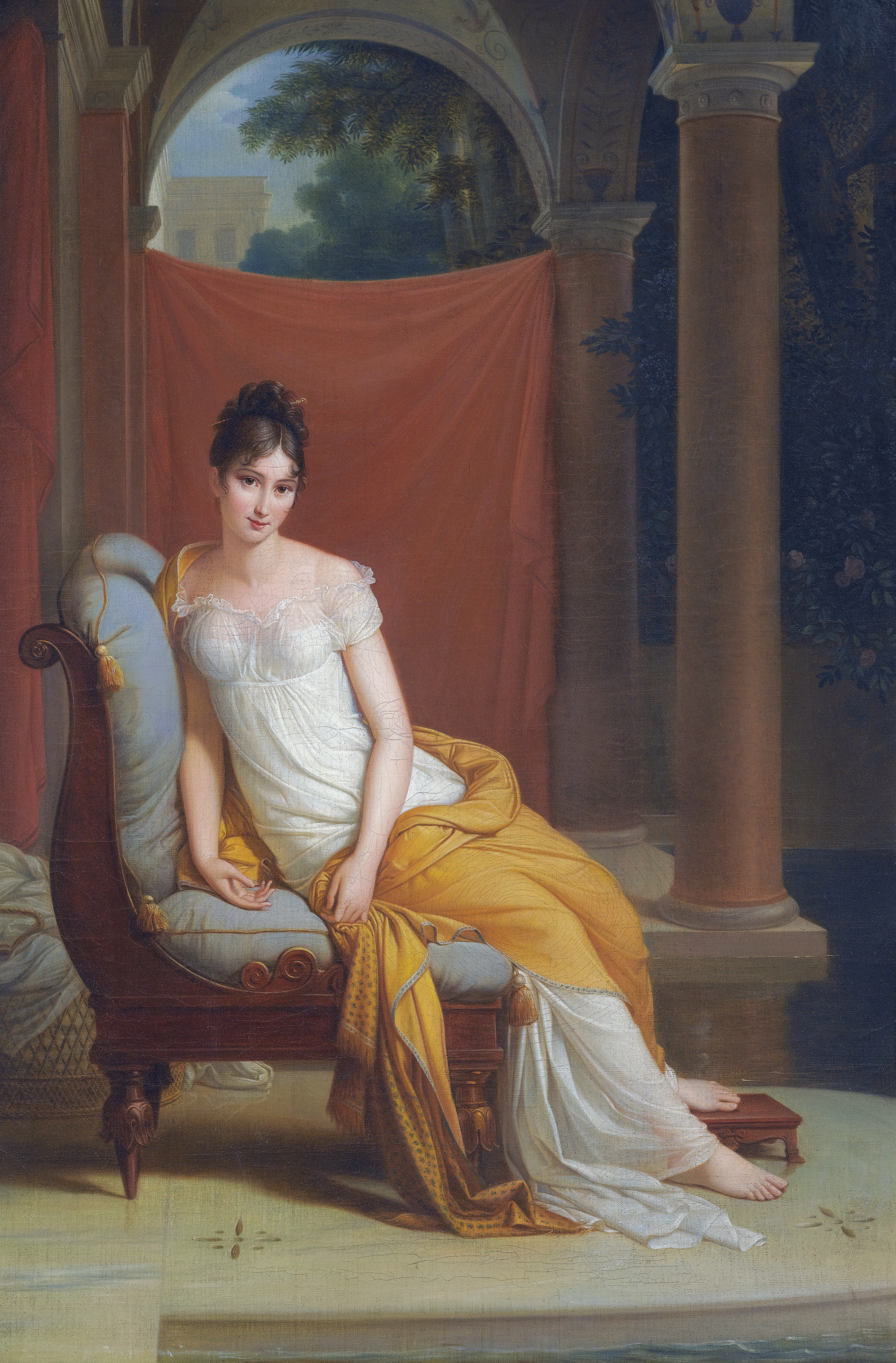 Madame Recamier (1777-1849)